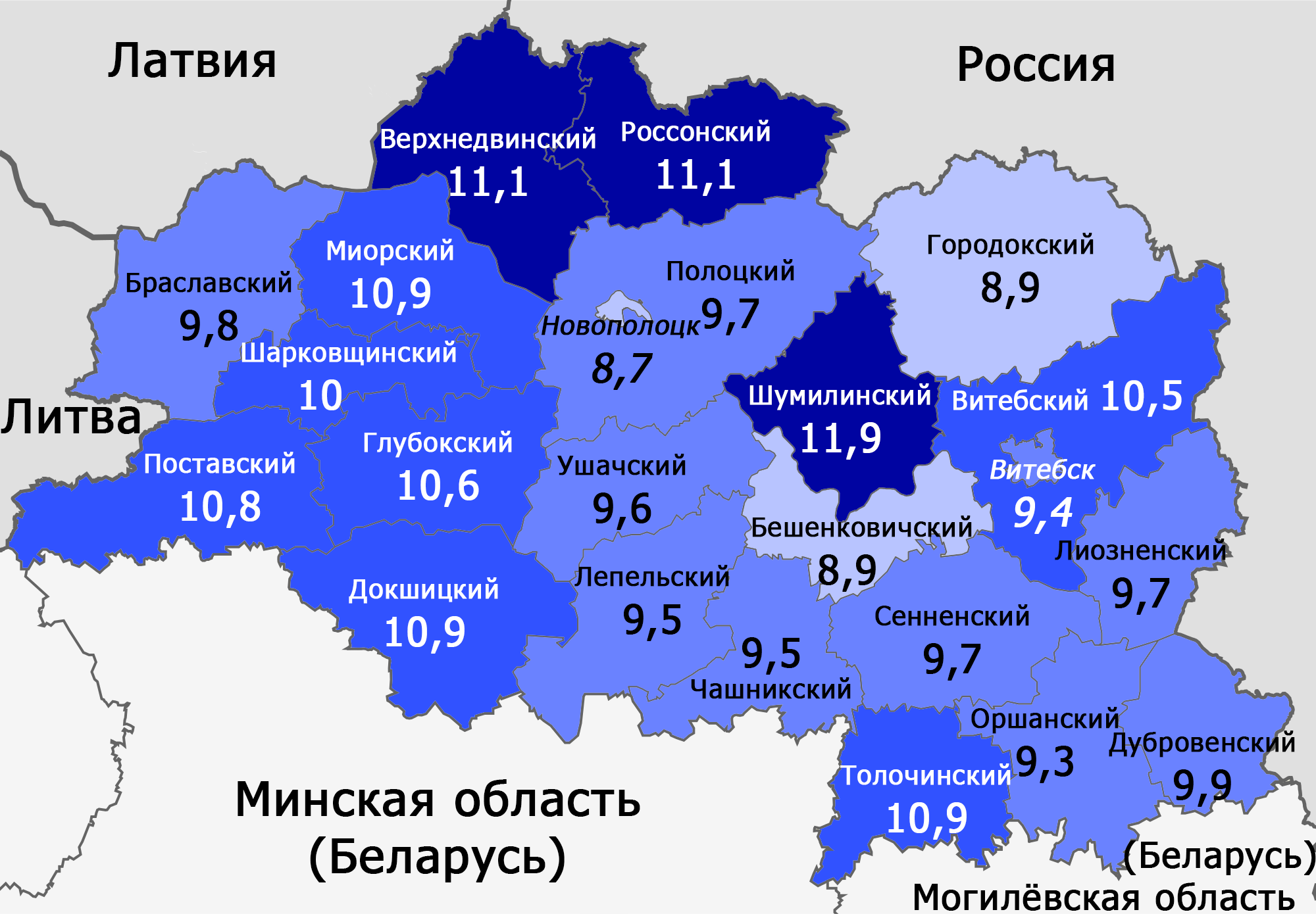 Birth rate in Viciebskaja voblasć, Belarus